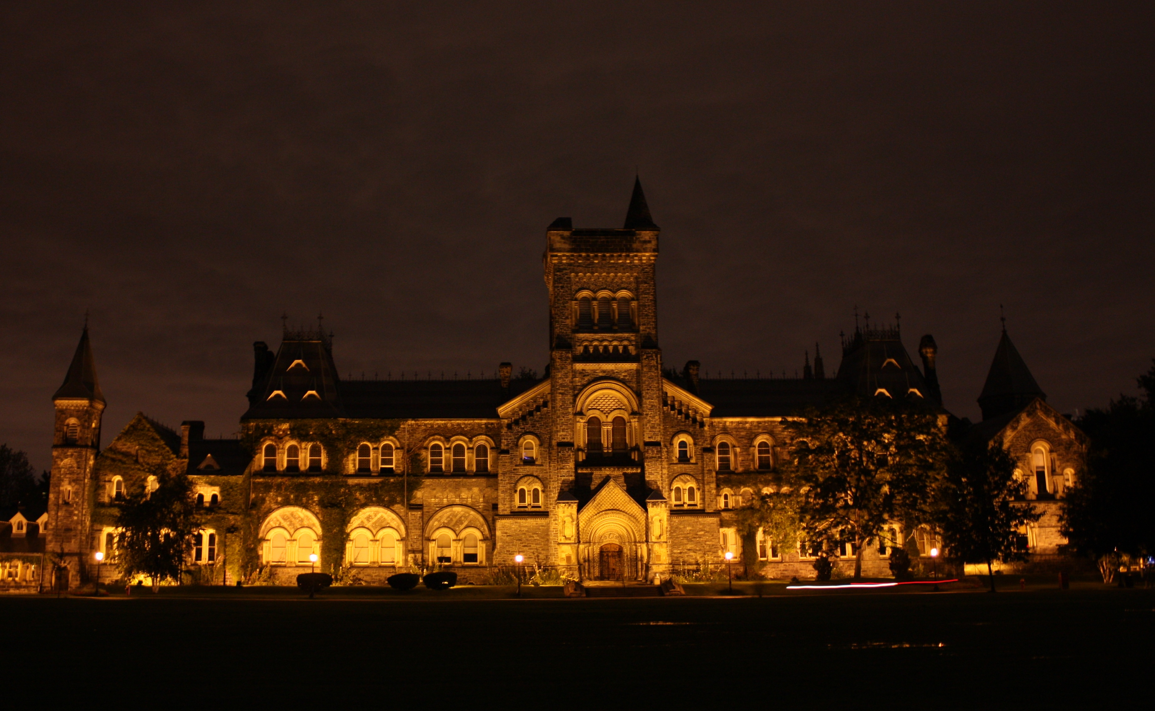 University College of the University of Toronto from front campus at night, Toronto, Ontario, Canada.